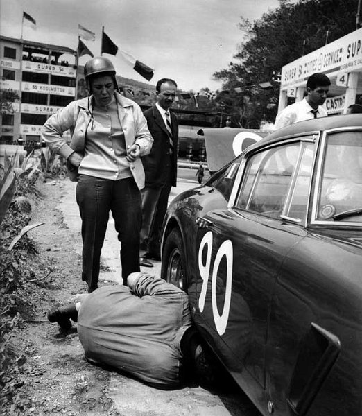 Entry #90 in the Targa Florio on May 6, 1962, was Ada Pace and Nino Todaro in the 1961 Ferrari 250 GT SWB Berlinetta Competizione s/n 2767GT. They did not start,[1] so do not figure in the result listings from that race. Maybe something wrong under the car?